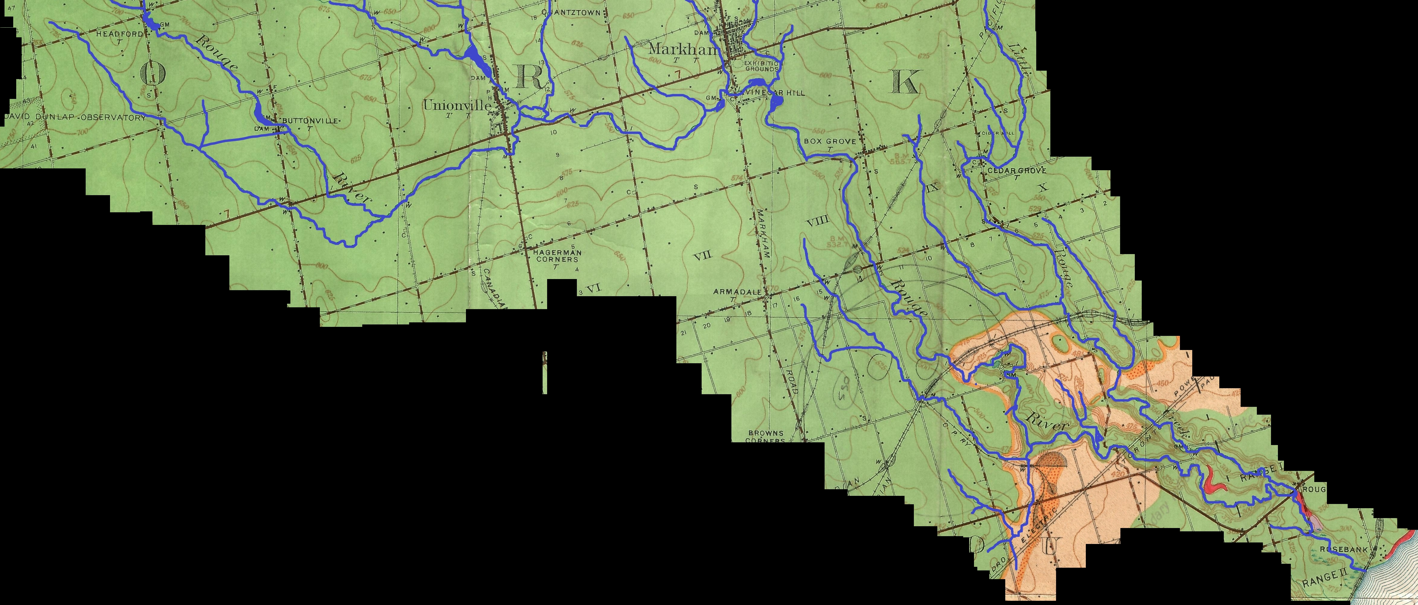 The Rouge River's headwaters (not shown here) are in the Oak Ridges Moraine, its mouth on Lake Ontario is at the border between Toronto, Ontario and Pickering, Ontario